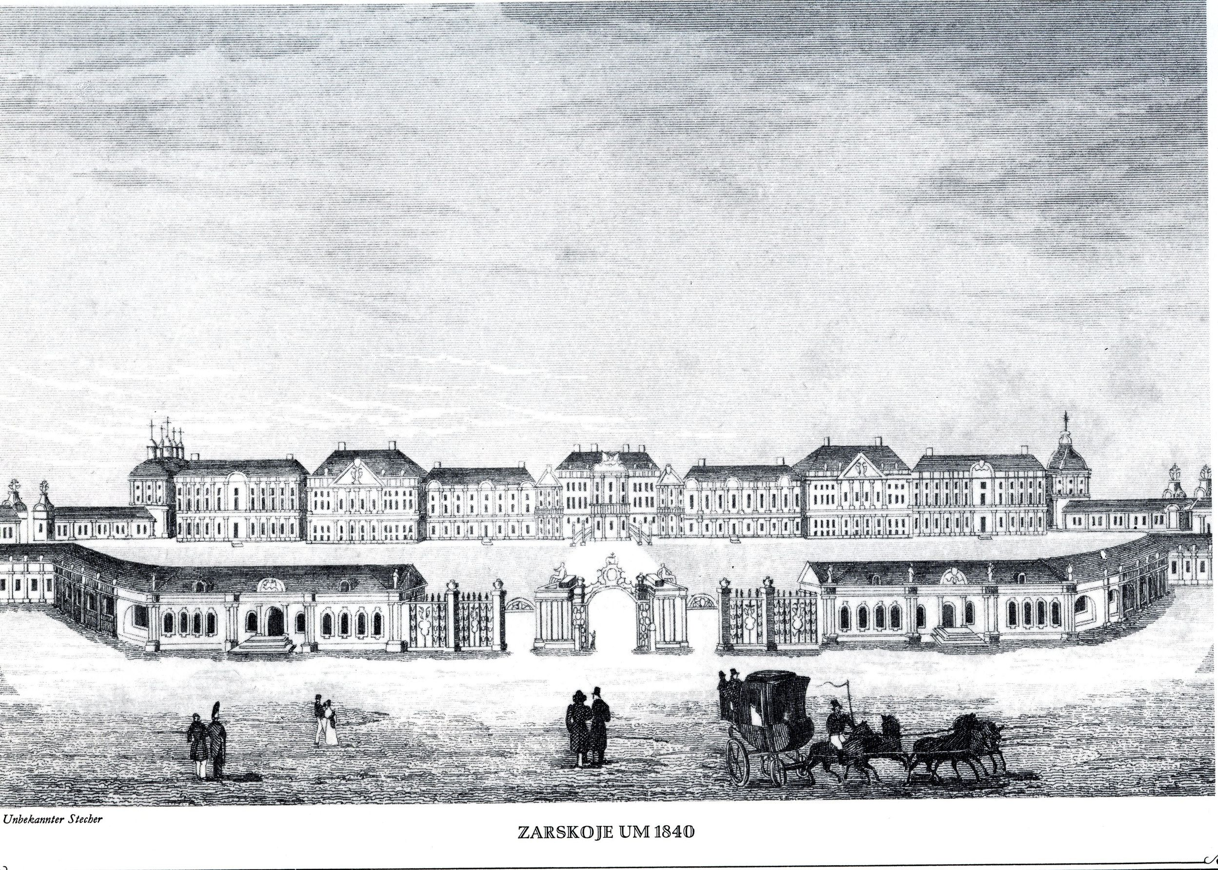 Tsarskoye Selo (Pushkin), the Catherine Palace (1840)